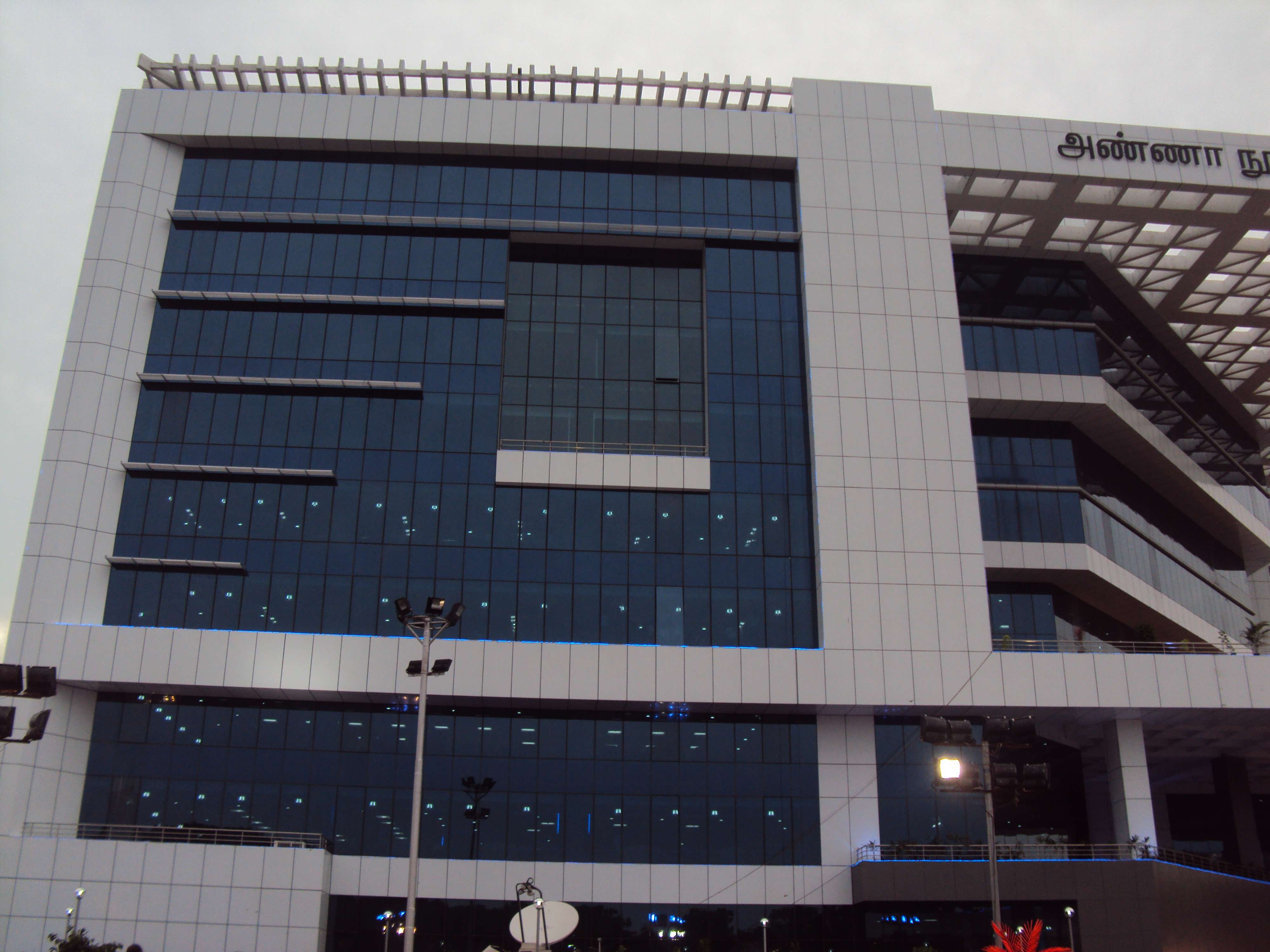 A view of the Anna Centenary Library at Kotturpuram.